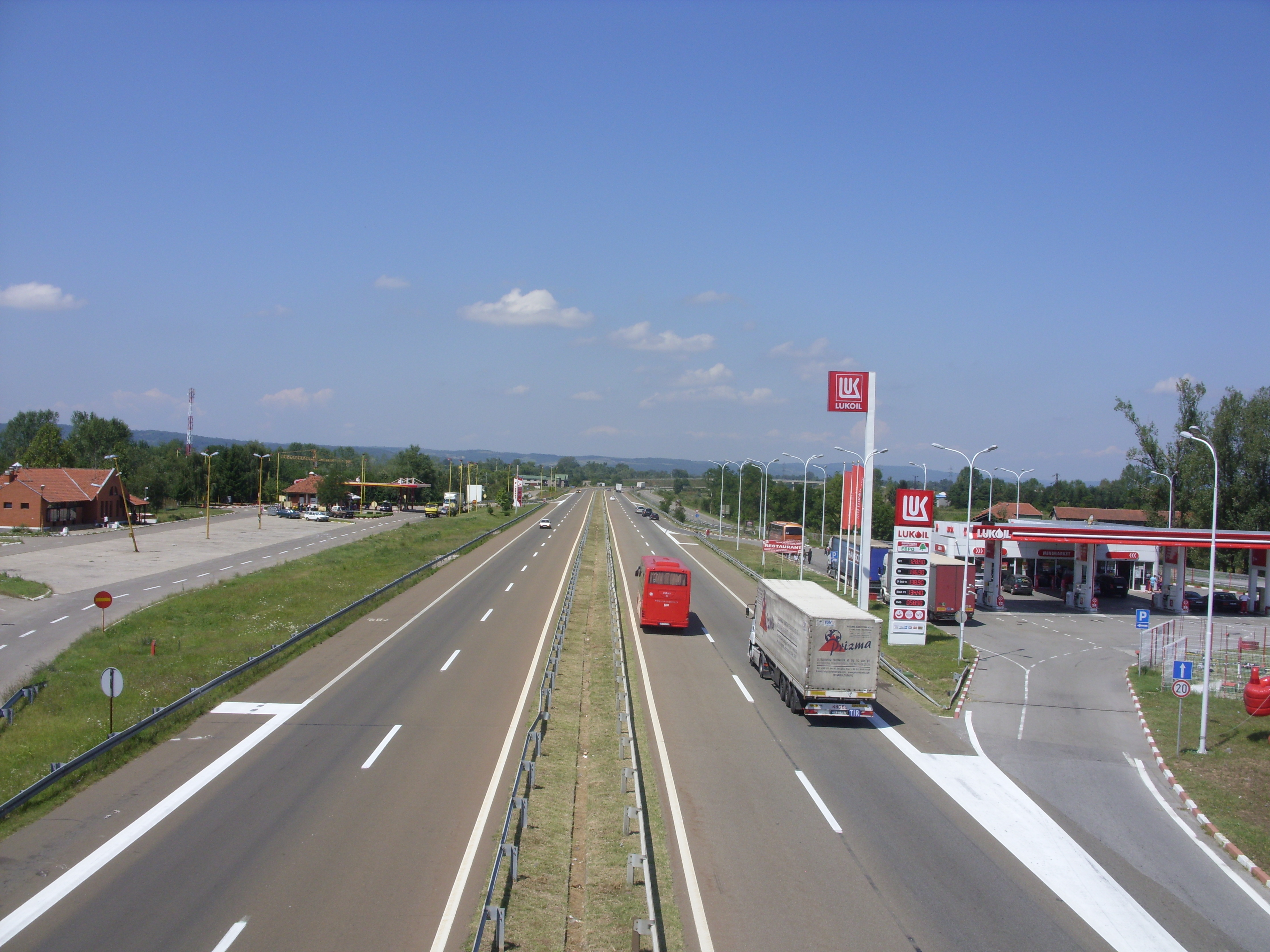 city Aleksinac, Serbia